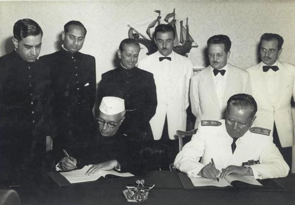 Jawaharlal Nehru and Marshal Tito, President of Yugoslavia, signing the Joint Declaration after conclusion of their talks, July 1955